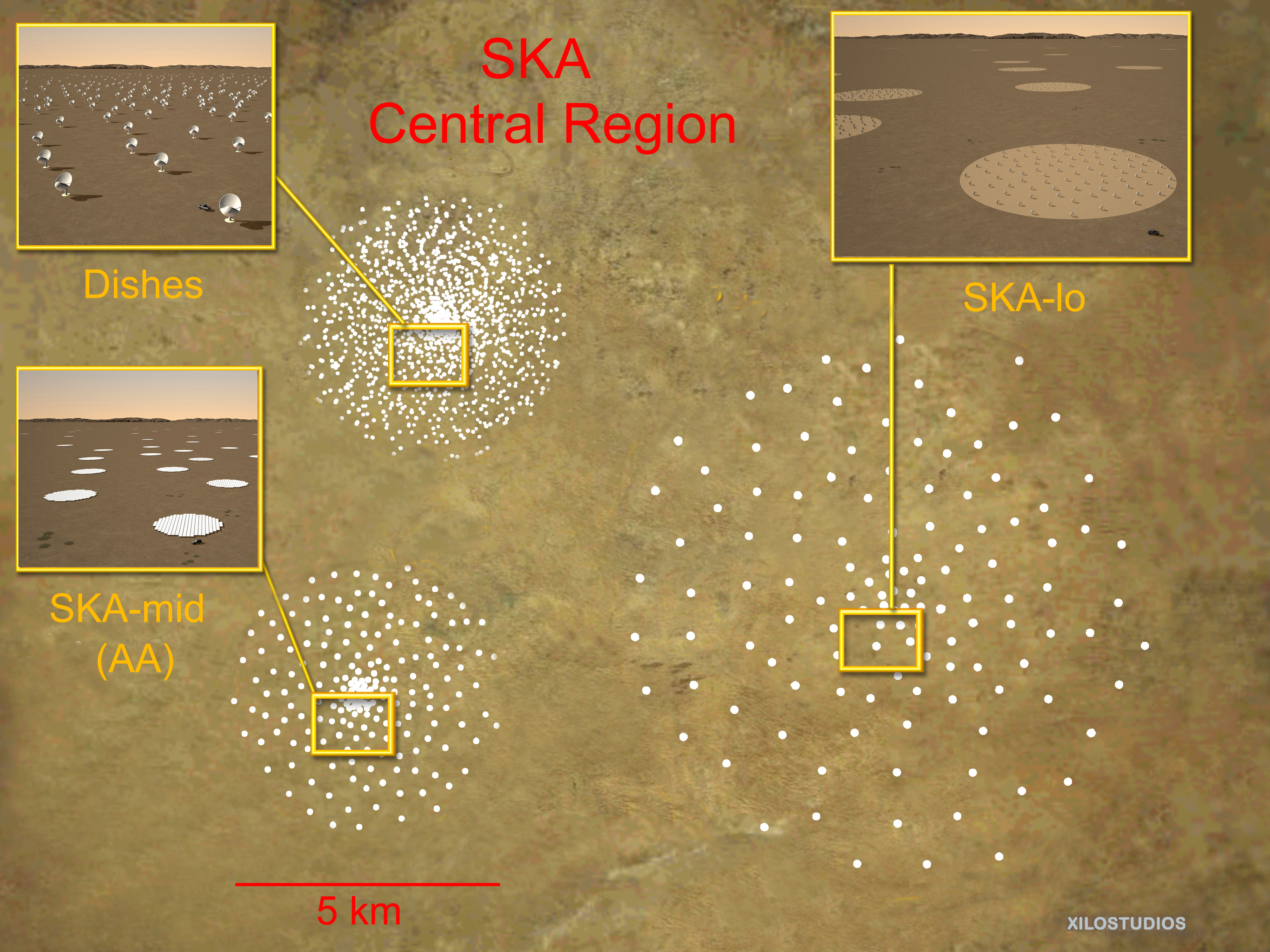 Schematic showing the central region of the SKA.